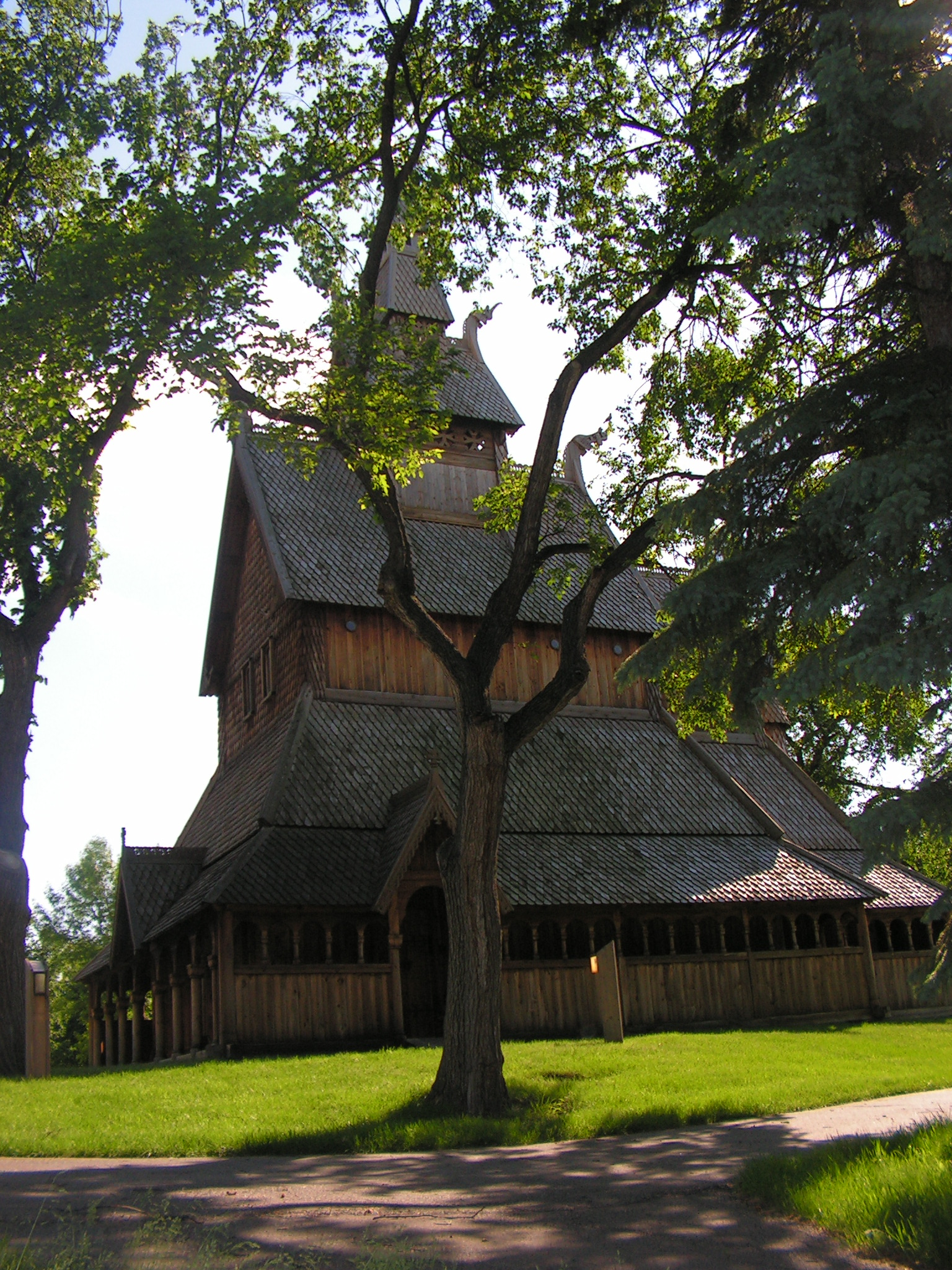 Norwegian Stave Church at the Hjemkomst Center, Moorhead, Minnesota.